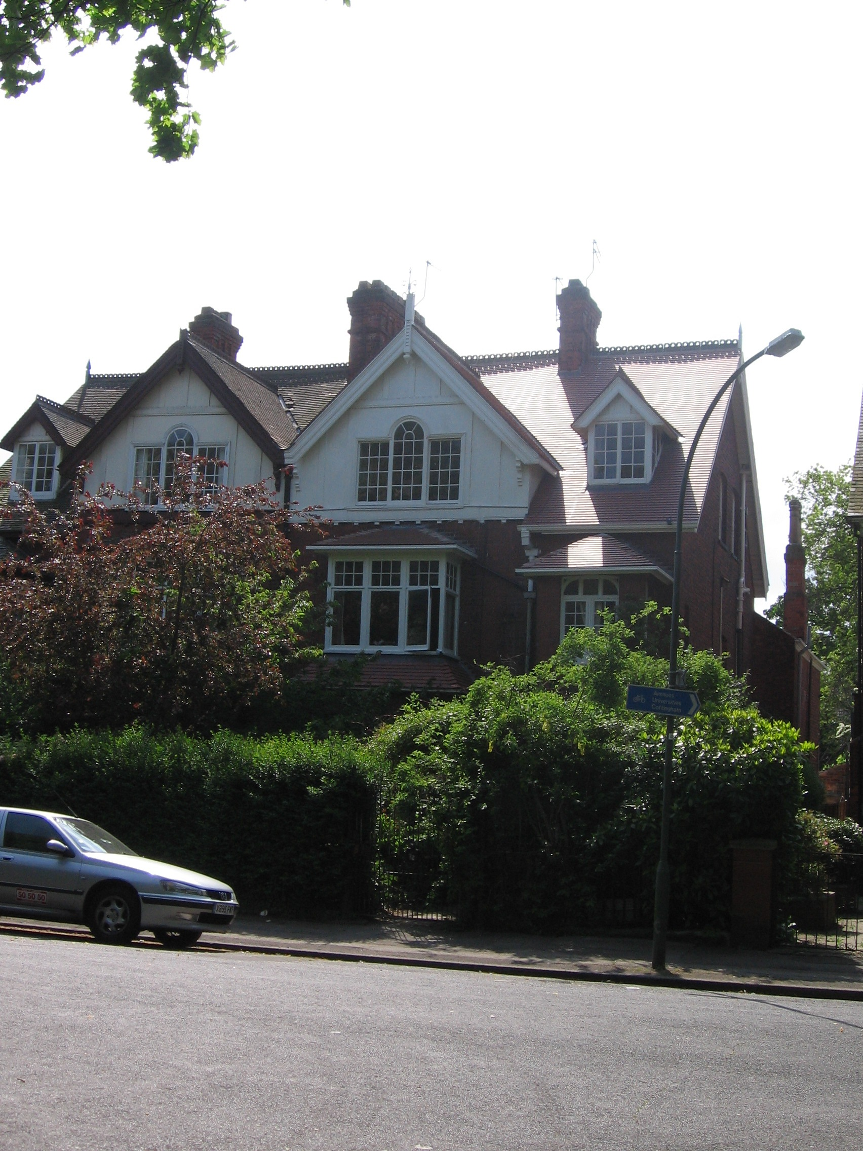 The building known as 32 Pearson Park, Hull, East Riding of Yorkshire, England.The front garden and wrought iron front garden gate is also shown. A flat in the building was once the home of English poet Philip Larkin (1922-1985).